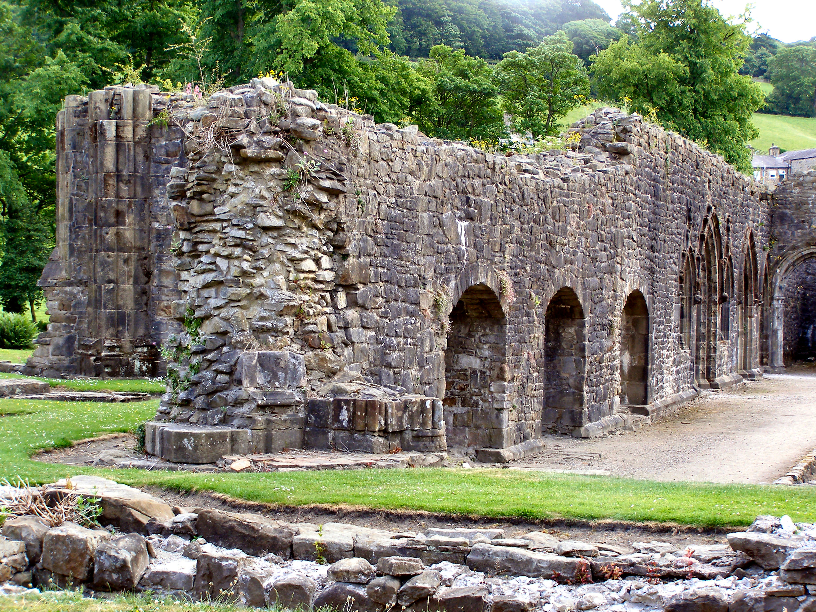 Whalley Abbey, near to Billington, Lancashire, Great Britain. The ruins of Whalley Abbey are a Grade I listed building and a Scheduled Ancient Monument. The site of the abbey was first consecrated in 1306 after the Cistercian monks from Stanlow Abbey had moved to Whalley. The church was completed in 1380 but the remainder of the abbey was not finished until the 1440s. The abbey closed in 1537 as part of Henry VIII�s dissolution of the monasteries. Following which, the abbey was largely demolished and a country house was built on the site. In the 20th century the house was modified and it is now the Retreat and Conference House of the Diocese of Blackburn. Today, only the foundations remain of the church. The remains of the former monastic buildings are more extensive. Link Official abbey web site Link Wikipedia article See other images of Whalley Abbey